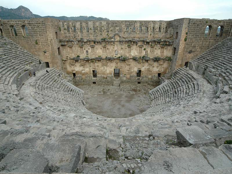 The Ancient Roman theater in Aspendos, Turkey.